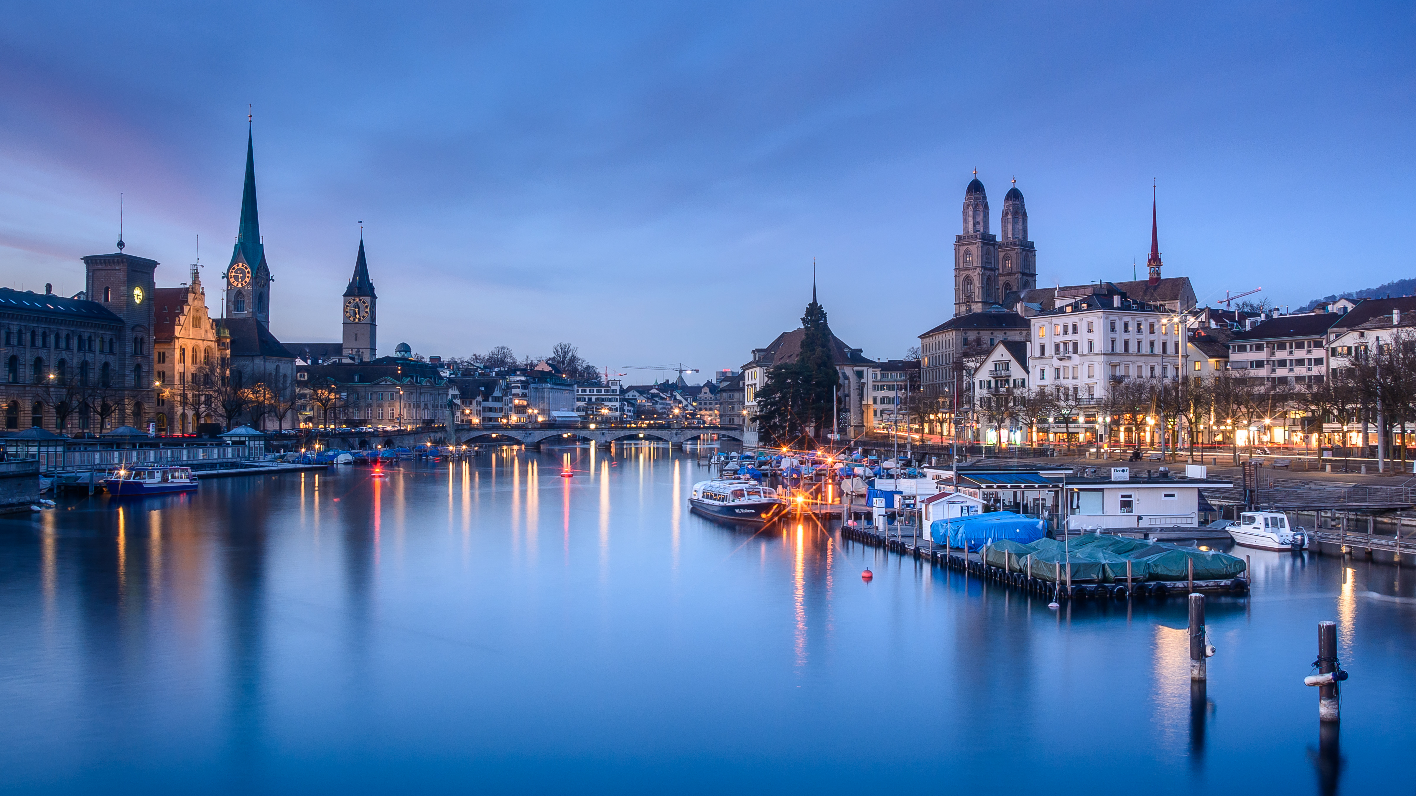 Blue hour shot of Zurich, Switzerland. The image shows the river Limmat and the three churches Fraumünster, St. Peter and Grossmünster.